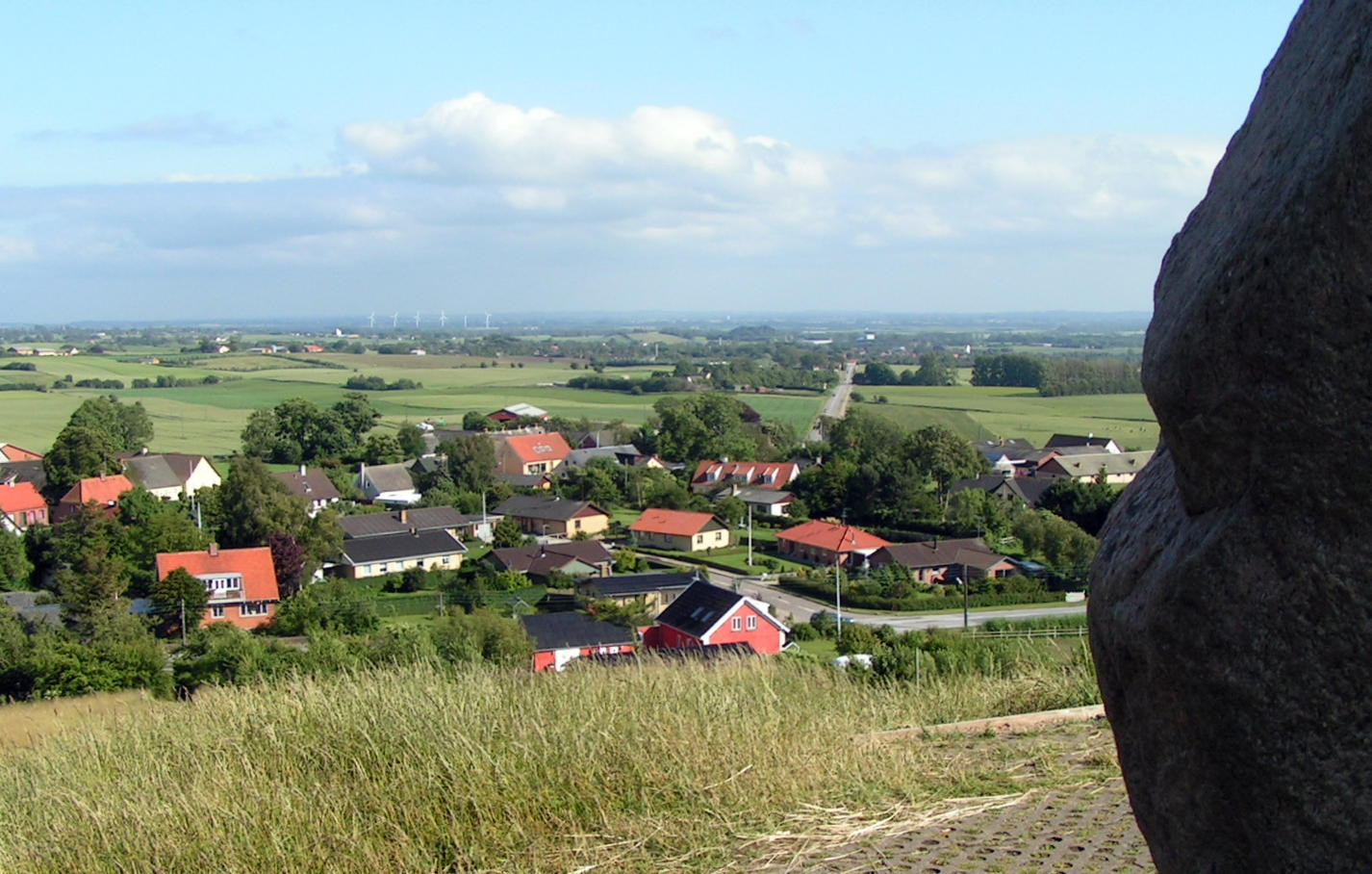 View from Esterhoej towards Hoeve and Lammefjorden